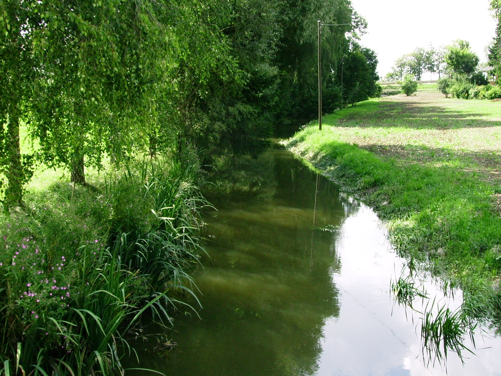 The valley of the river Kessel near Thalheim, Bissingen